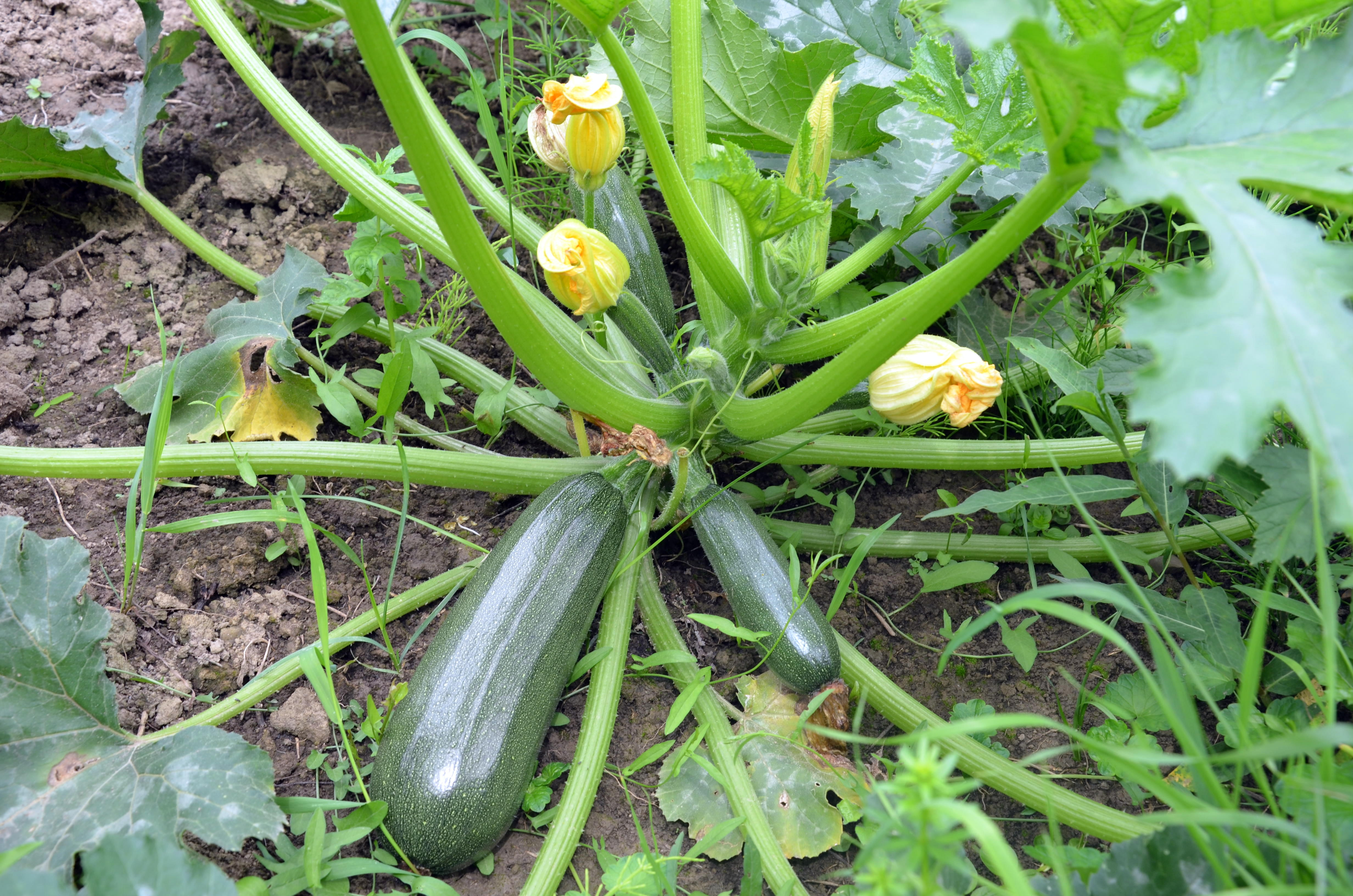 Cucurbita pepo zucchini group